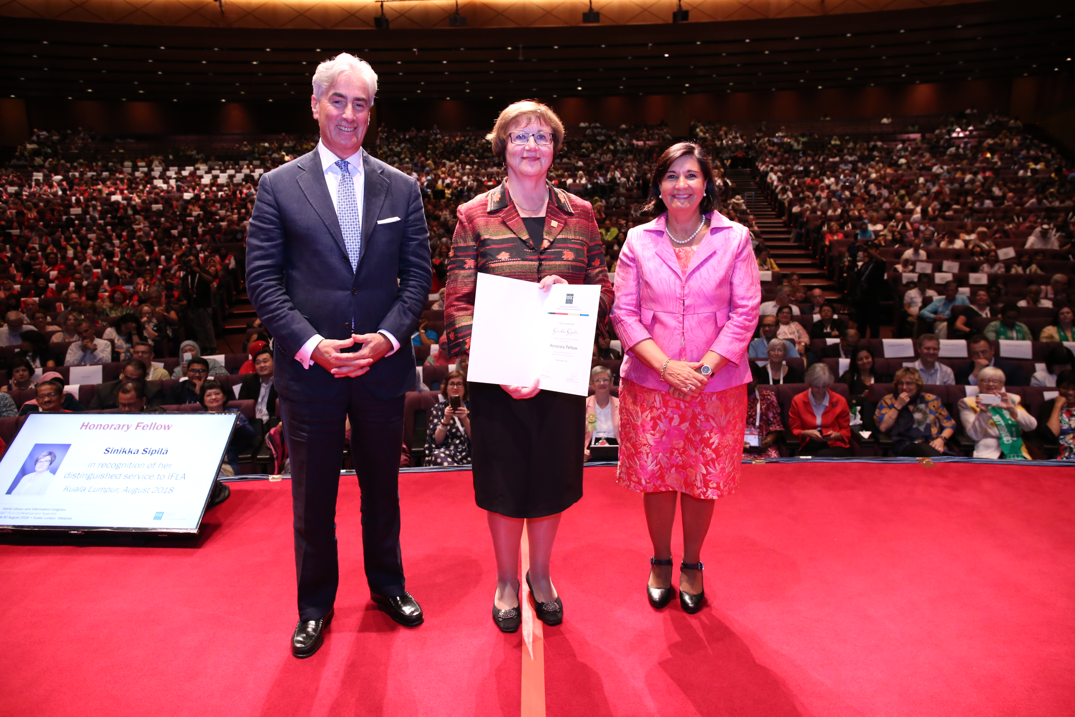 Sinikka Sipilä was made an IFLA Honorary Fellow in recognition of her distinguished service to IFLA